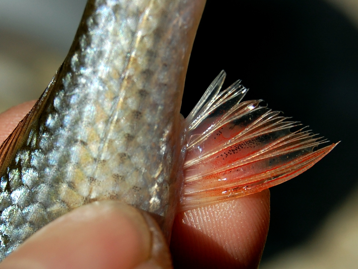 Above: Labiobarbus leptocheilus, 105 mm SL (standard length), anal fin. From Kebumen, Central Java, Indonesia.